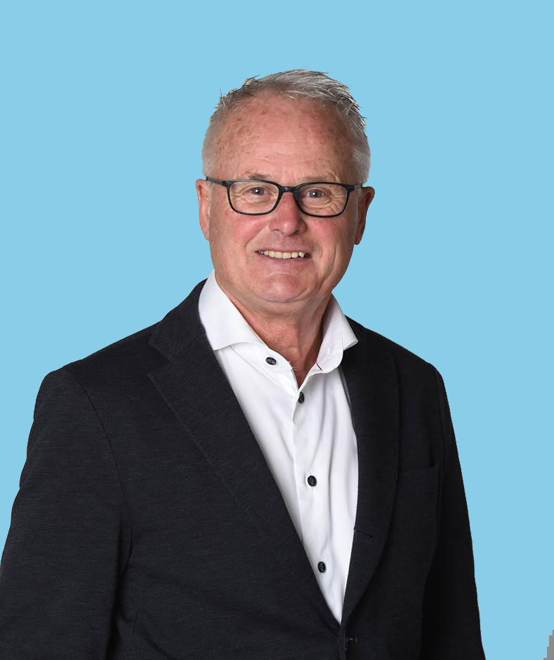 Kandidaat-Kamerlid.